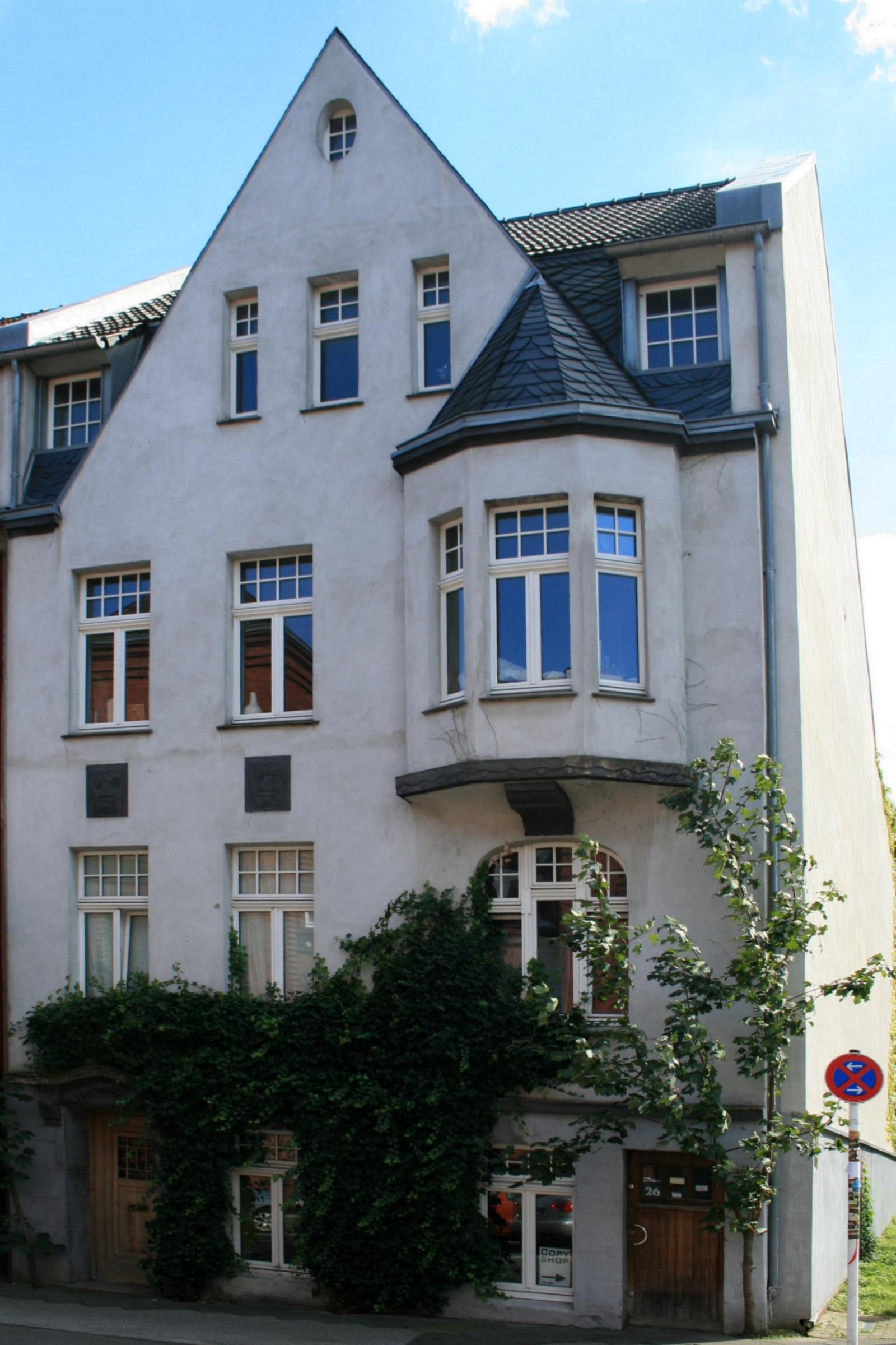 Cultural heritage monument No. W 027 in Mönchengladbach